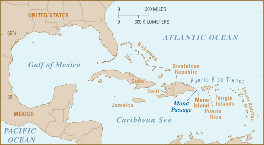 Map showing location of Mona Passage